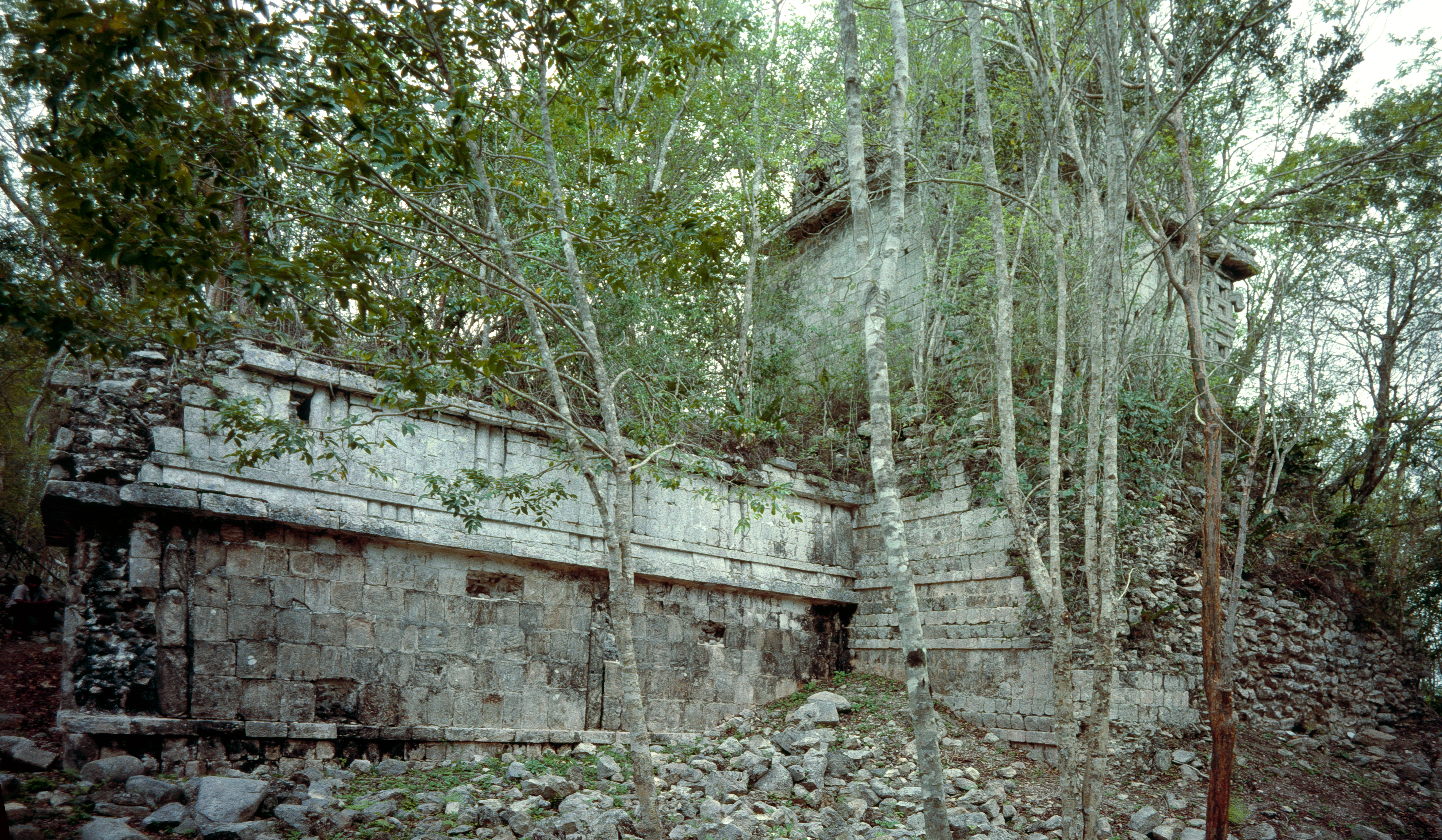 Xkichmnook, Yucatan, Mexico: Palace, rear side.